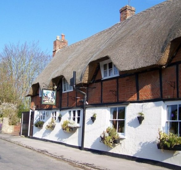 The Plough public house, Church Street, West Hanney, Oxfordshire (formerly Berkshire)